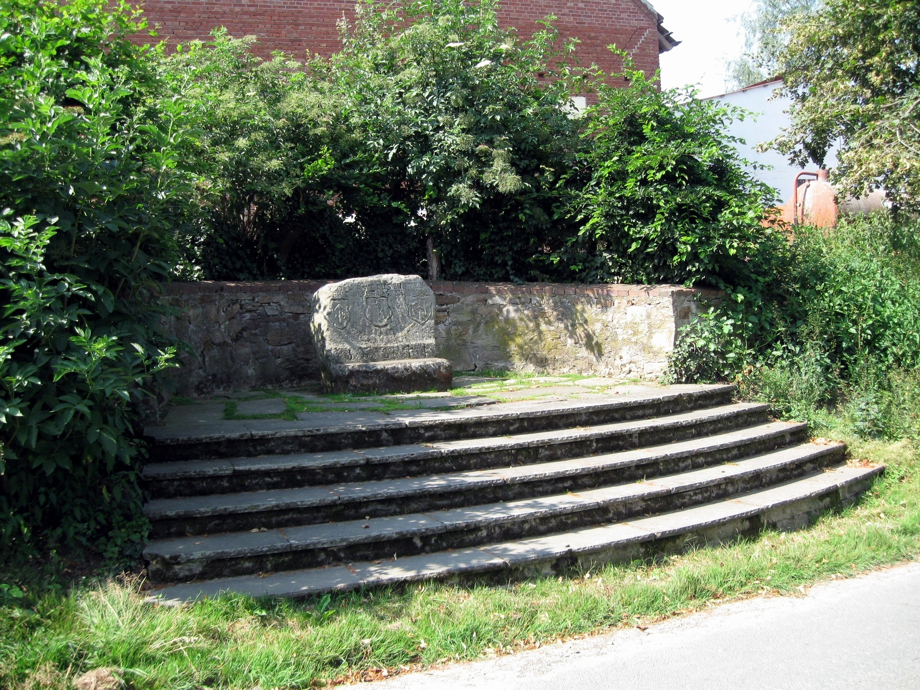 Sheltered Wittekinds Stone stone monument in Exter July 2009